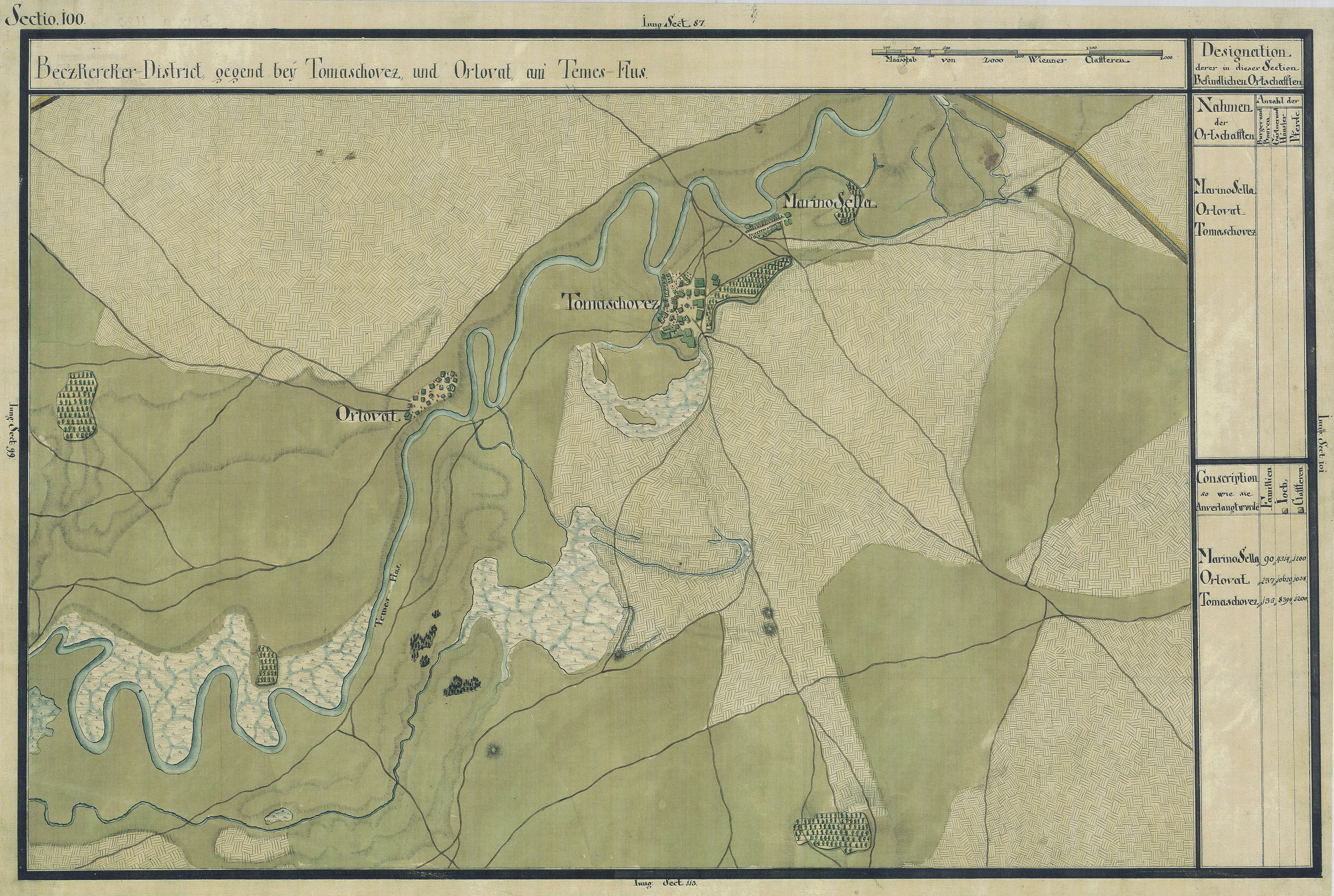 The Banat region in the cadastral maps: Josephinische Landesaufnahme, 1769-72. Josephinische Landaufnahme pg100